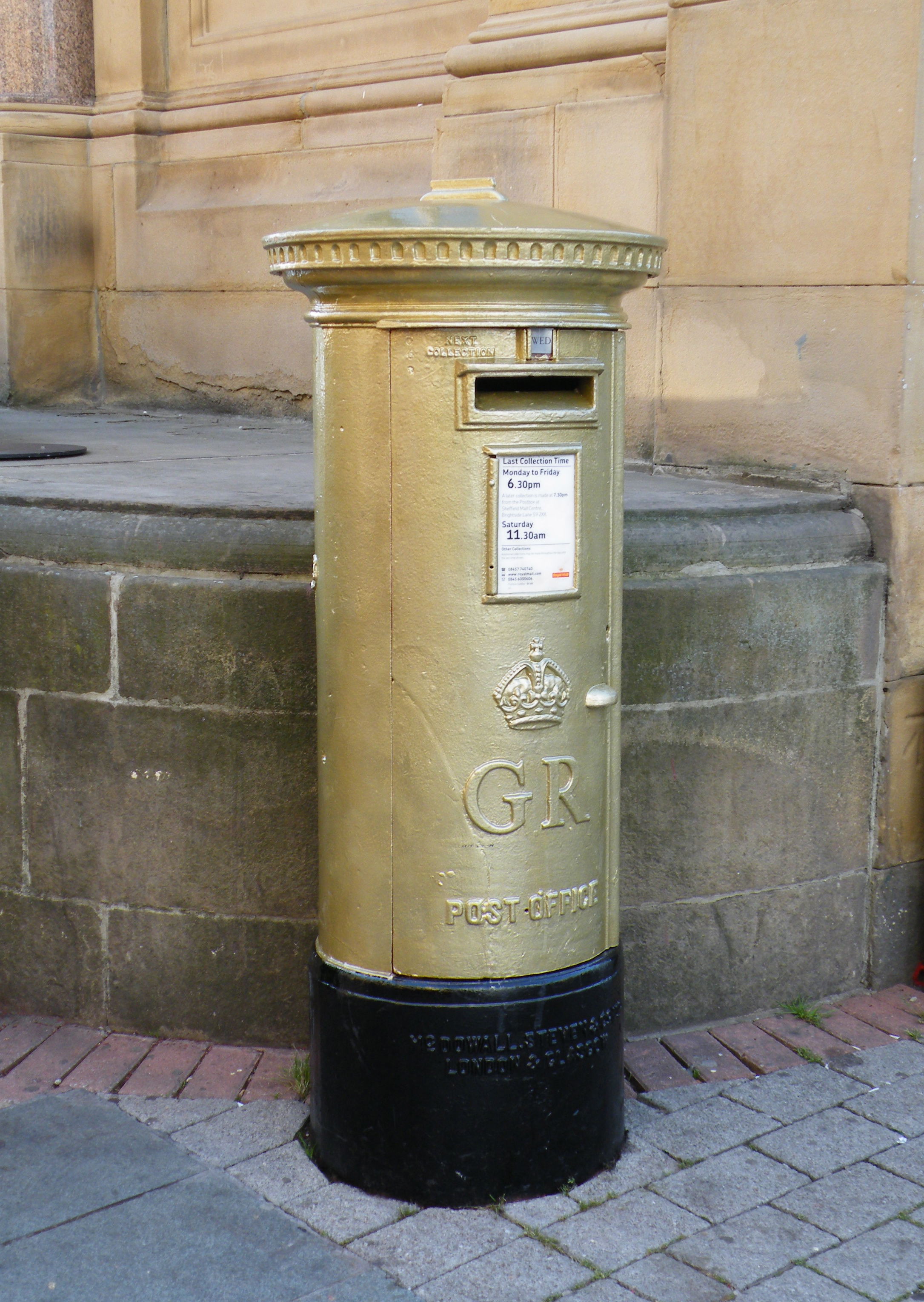 Jessica Ennis' Golden Post Box, Barker's Pool, Sheffield. Jessica Ennis' win in the Olympic Gold Heptathlon is celebrated with a Post Box in Barker's Pool, near to the City Hall, being painted Golden ... sadly it was vandalised within 24 hours with some Graffiti, but this was... more